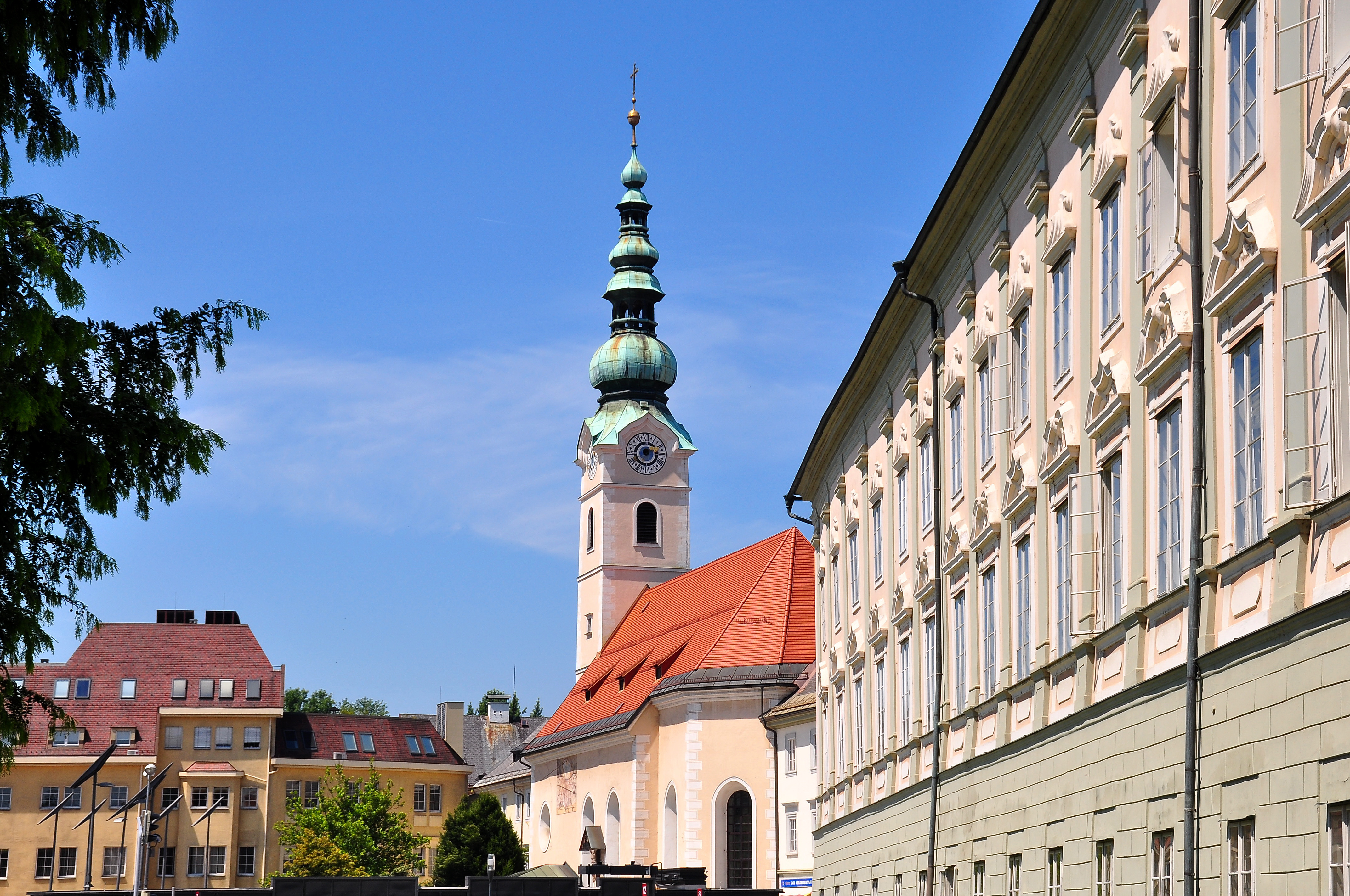 Heiligengeistkirche and Landhaus on Heiligengeistplatz, Klagenfurt, Carinthia, Austria, EU